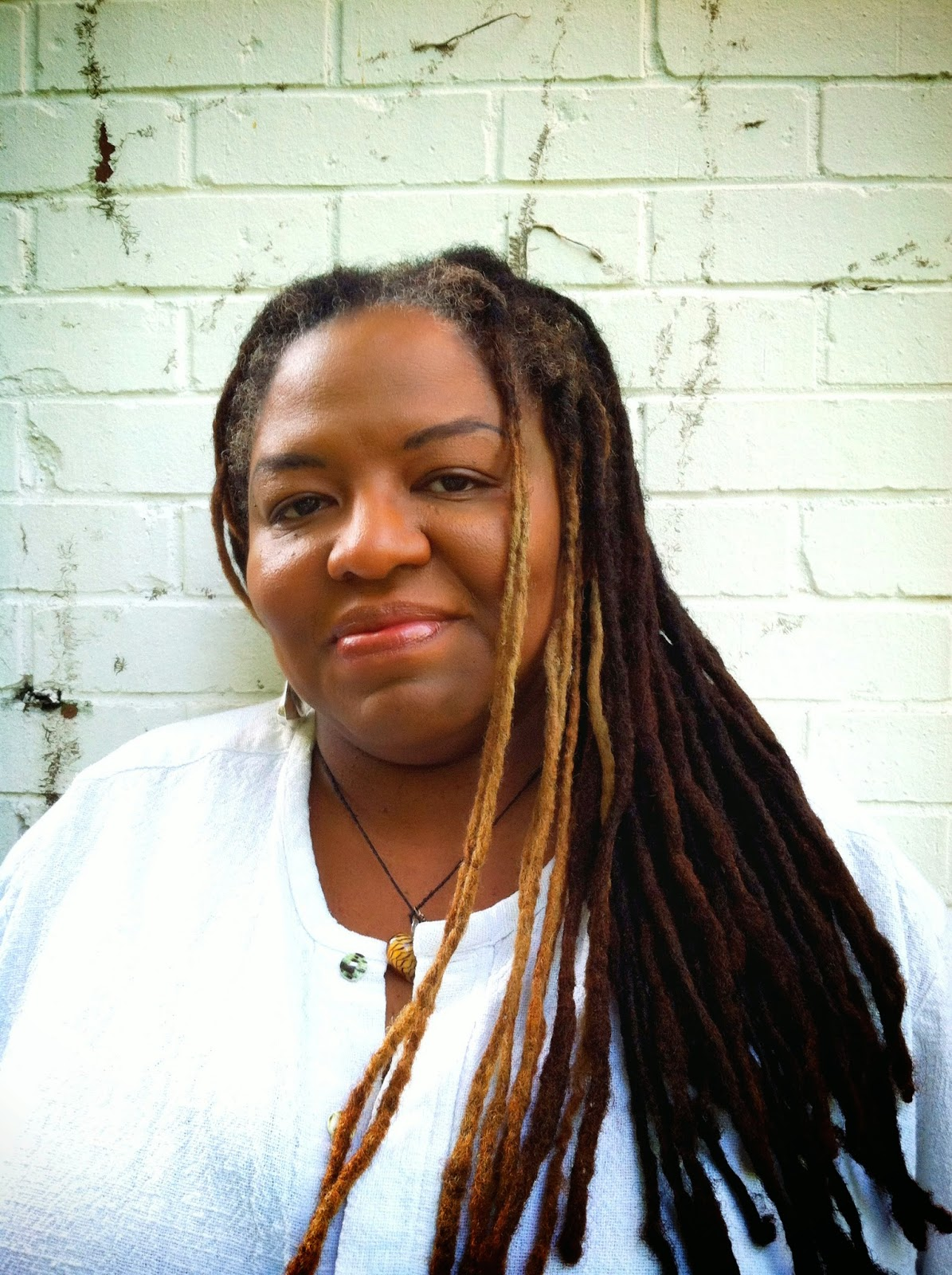 Photo of Crystal Wilkinson